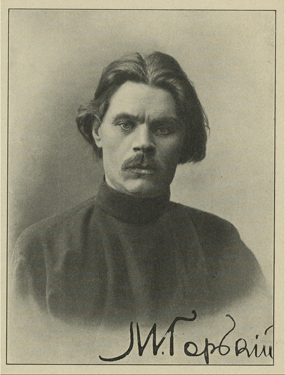 Maxim Gorky’s authographed portrait